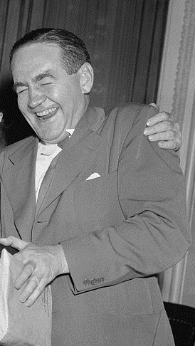 John Martin Vorys, Ohio cropped from July 1, 1939 photo.